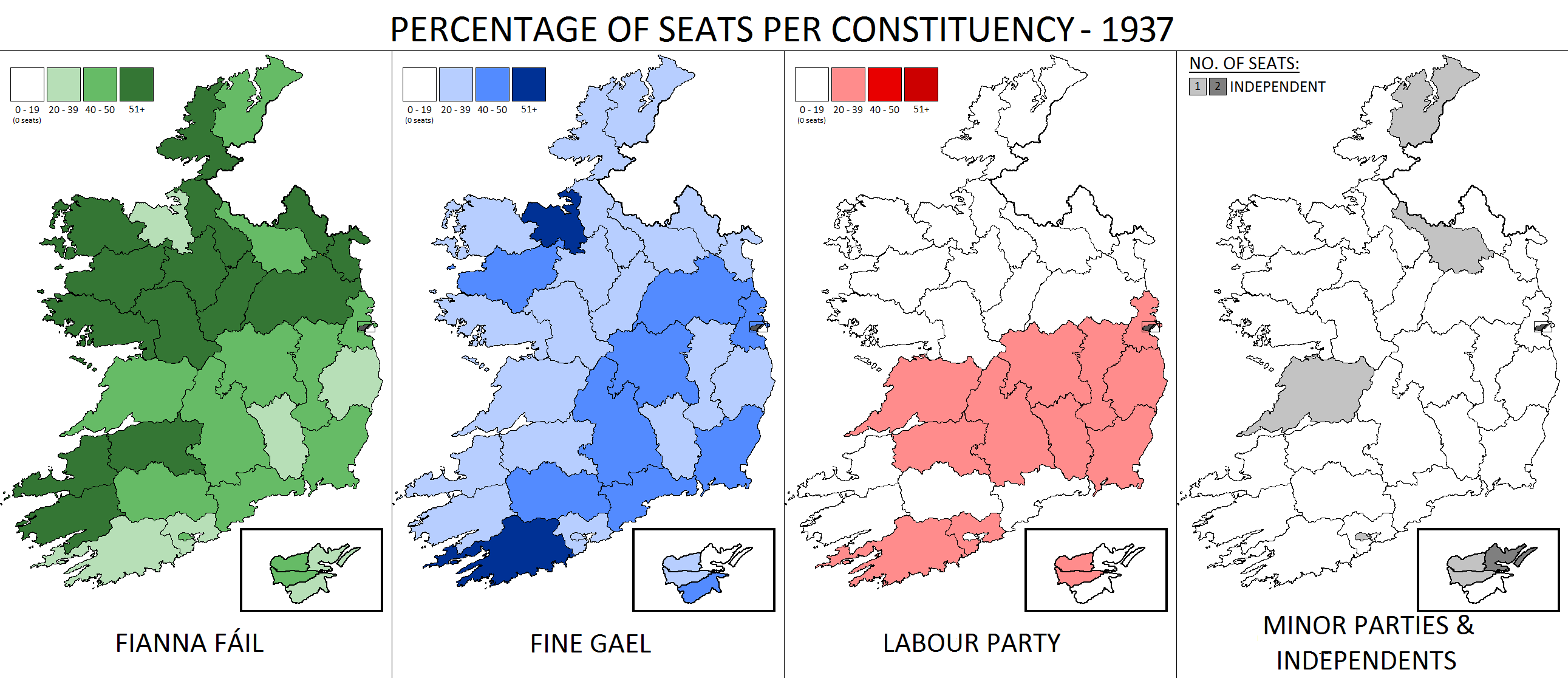 Graphical representation of the 1937 Irish general election results. Created by myself using data from Wikipedia and literary sources.